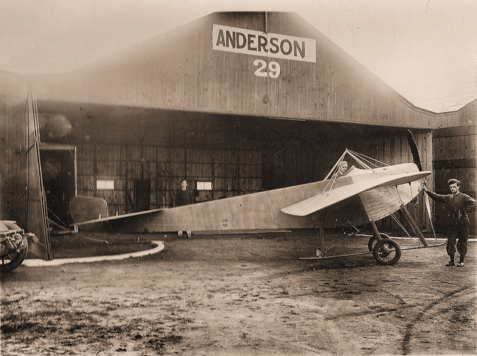 A Nieuport monoplane, possibly a Nieuport IVG, owned by Ernest Anderson. Photograph taken circa 1911.